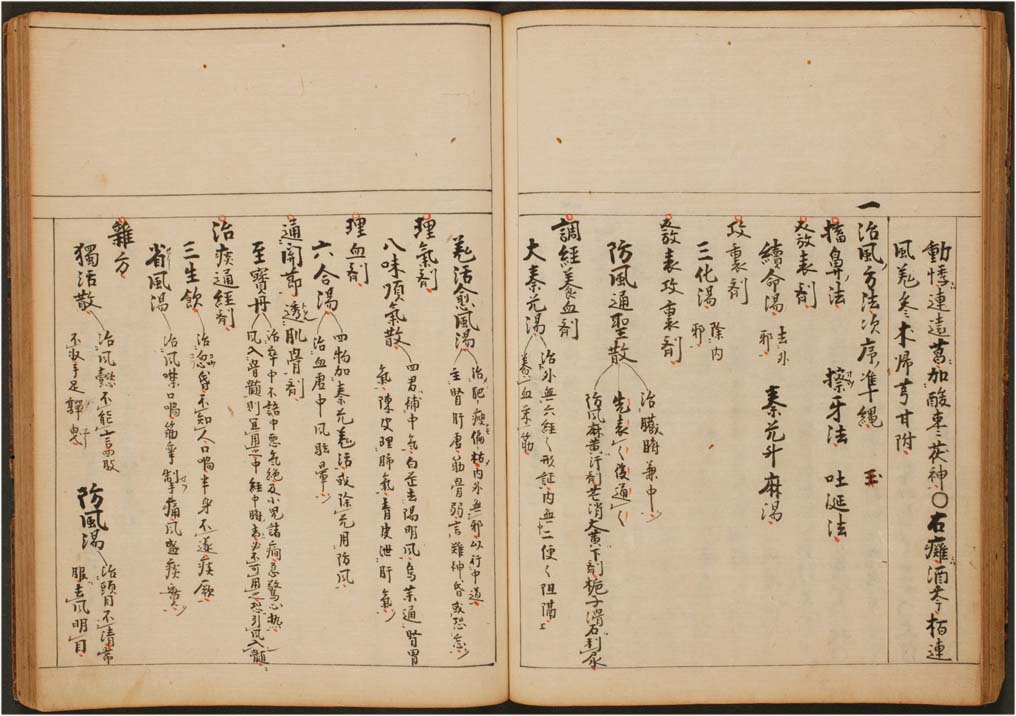 One of the few early manuscript copies of Manase Dōsan's "Keiteki-shū"